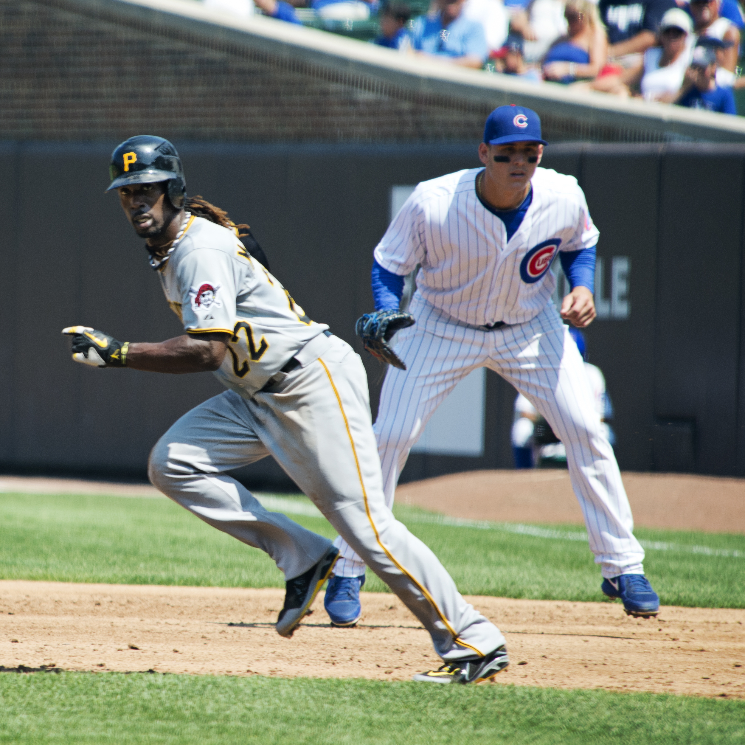 Andrew McCutchen (left) and Anthony Rizzo